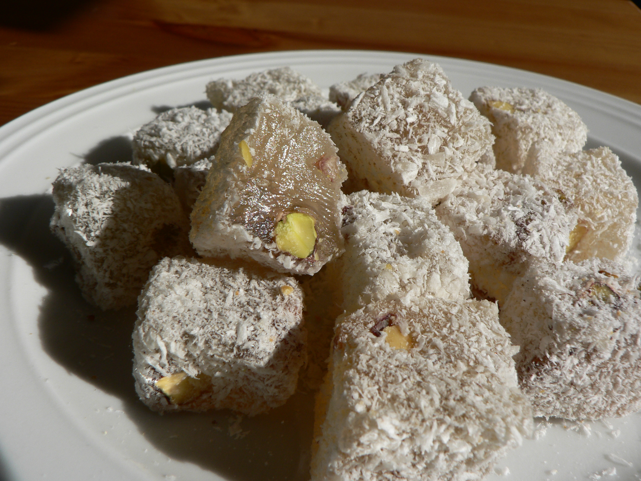 turkish delight (lokum) from spice market Istanbul